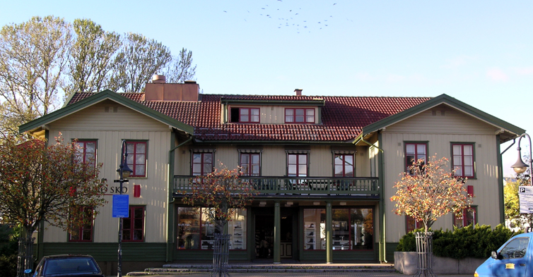 Storgata 7, Jessheim, Ullensaker, Norway.